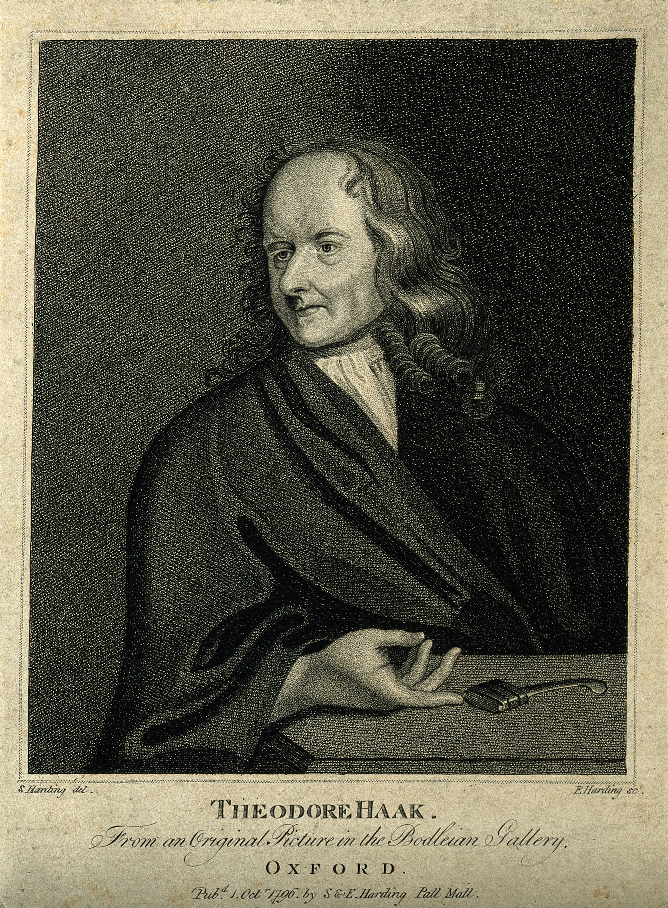 Theodore Haak. Stipple engraving by E. Harding, 1796, after S. Harding. Iconographic Collections Keywords: portrait prints; Theodore Haak; Edward Harding; stipple prints; Sylvester Harding